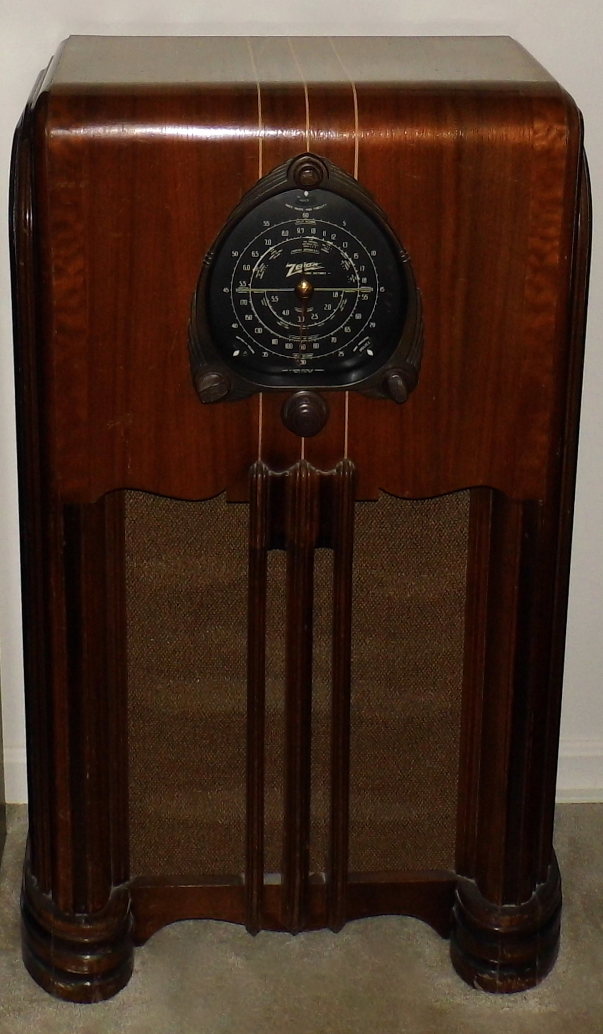 The "funky" grill cloth needs to be replaced with one similar to the original; however, the overall condition of the radio is very good.